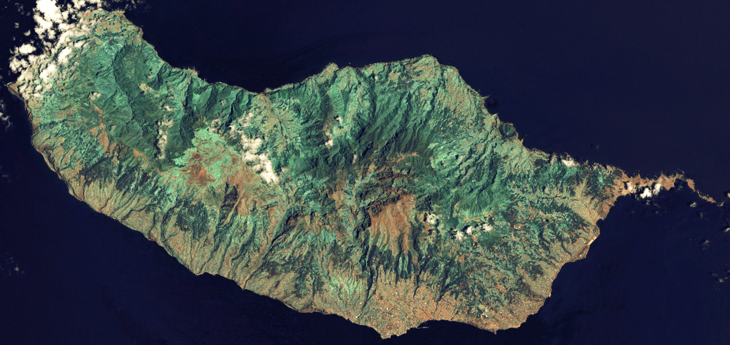 Satellite image of Madeira.